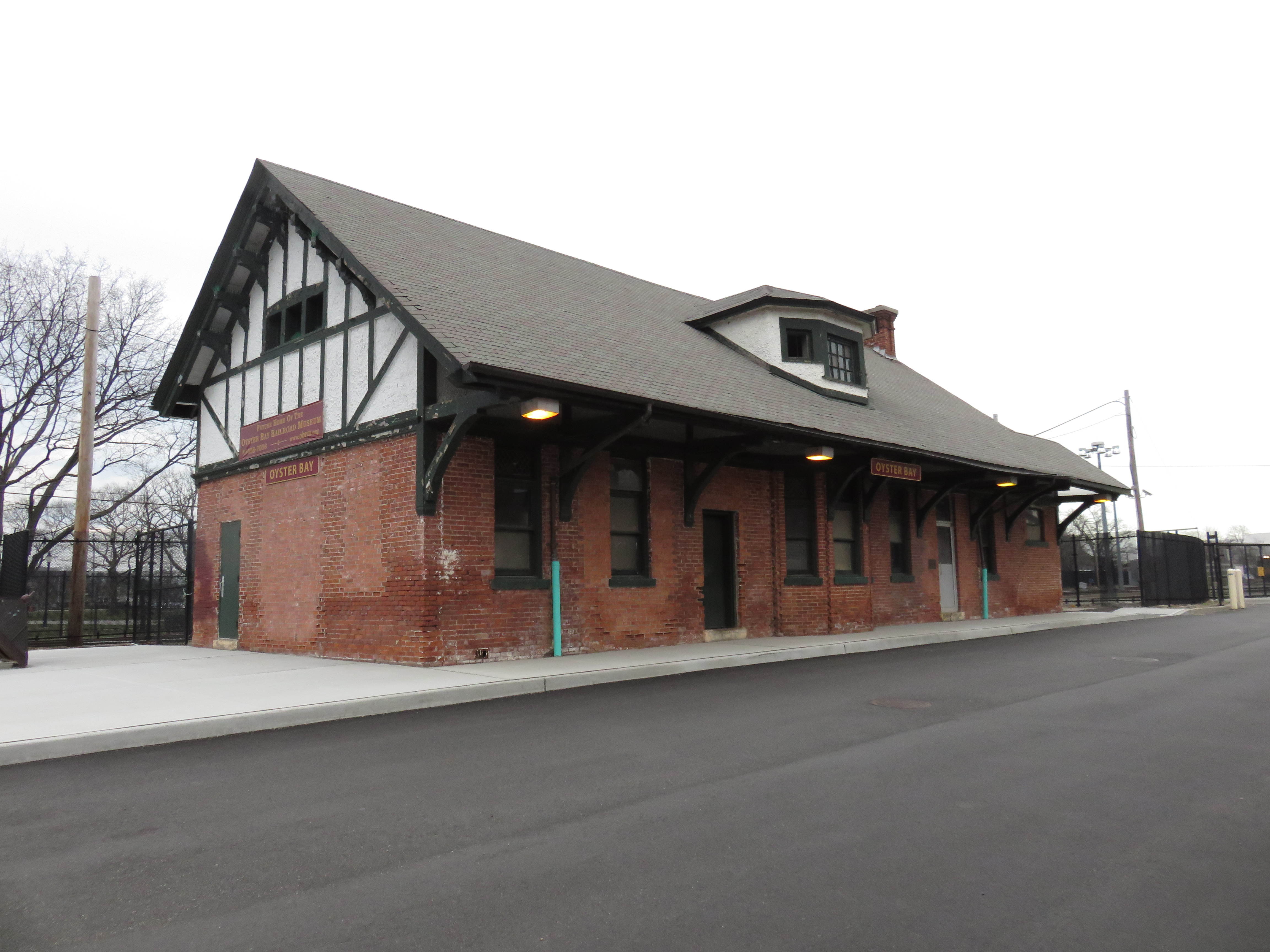 Former Oyster Bay Long Island Rail Road Station in Oyster Bay, New York in 2016